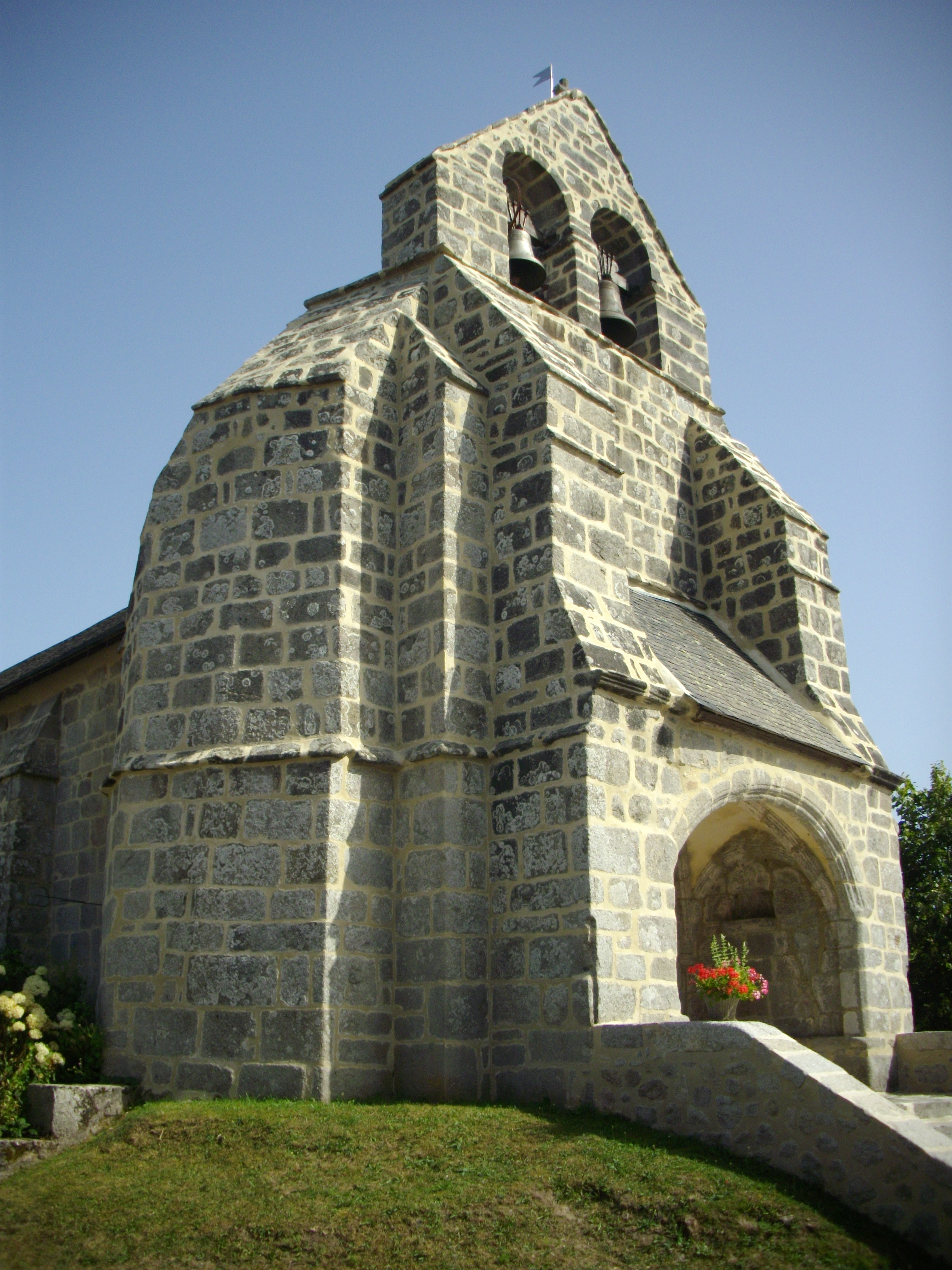 Saint Sylvain church of Chirac-Bellevue (Corrèze, France)